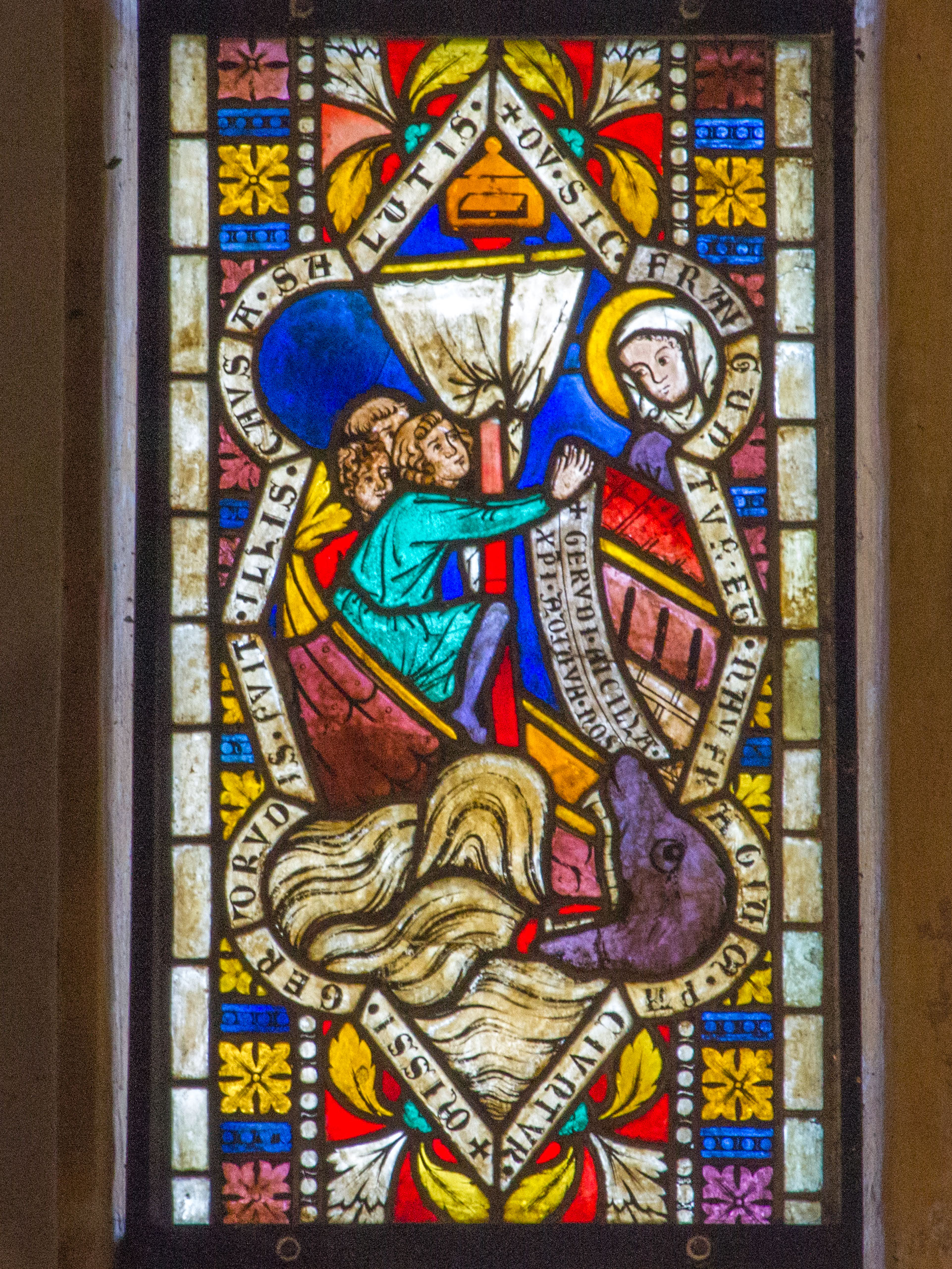 Gars – Gertrudskirche - gotische Glasfenster - Errettung aus Seenot durch die hl. Gertrud Dieses Bild wurde anlässlich des österreichischen Tags des Denkmals 2014 in Niederösterreich eingereicht.